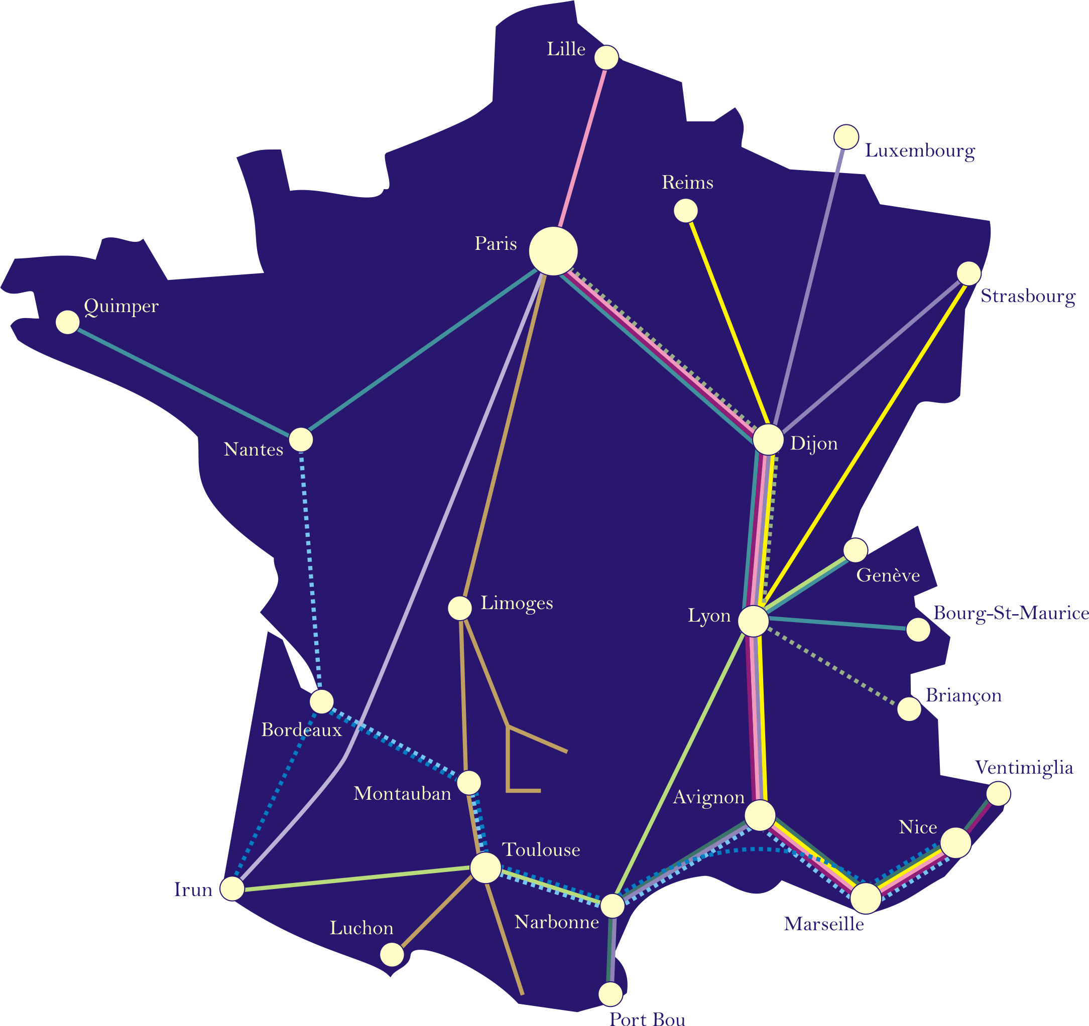 Map of Corail Lunéa services within France.